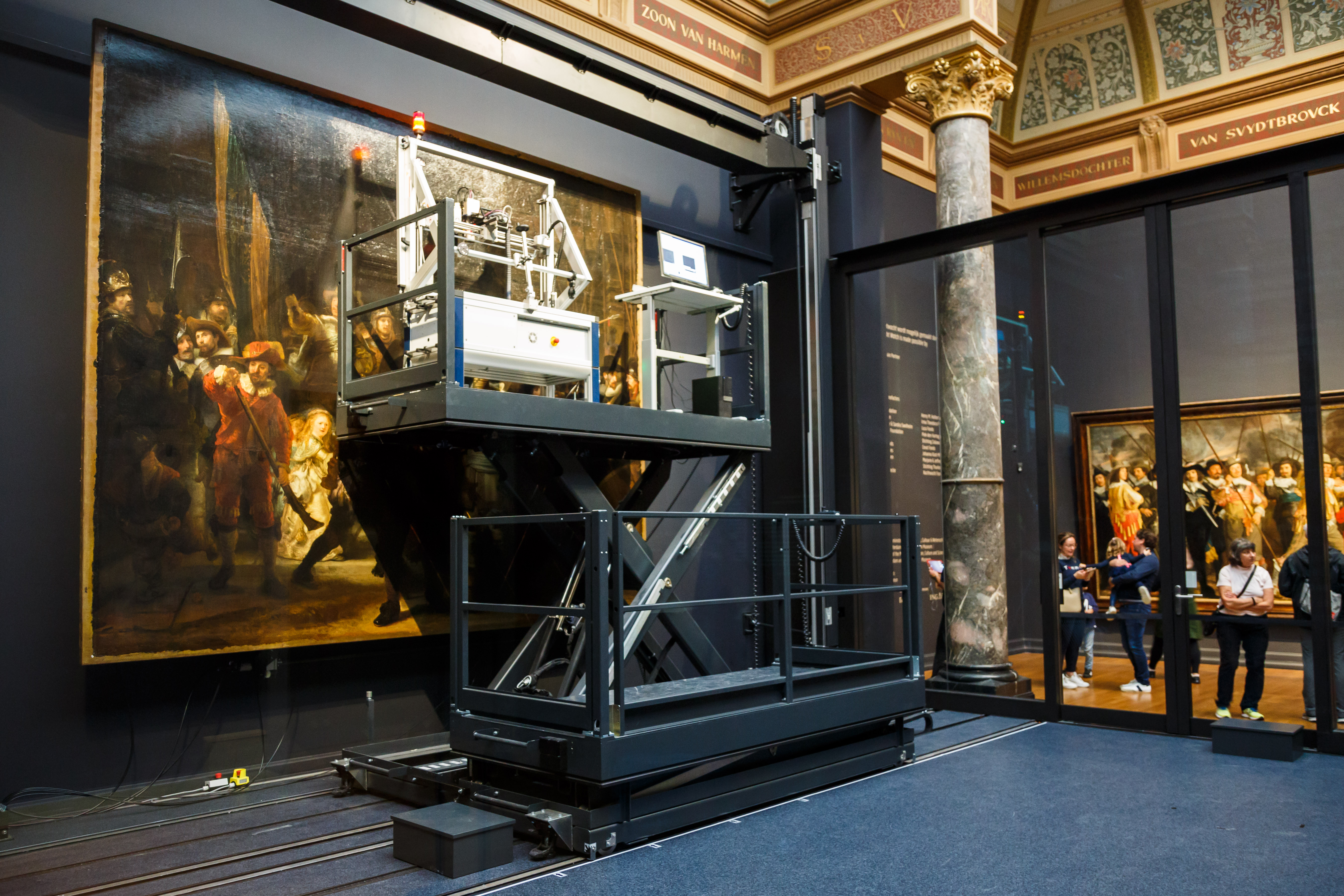 The painting The Night Watch by Rembrandt van Rijn during restoration measures as part of Operation Night Watch. A glass box was built around the painting for the acquisition by means of high-resolution digital photography, X-ray fluorescence analysis and spectroscopy while the museum was in operation.